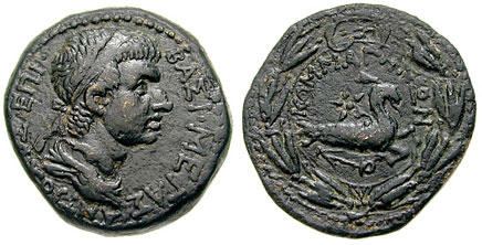 COMMAGENE, Kings of. Antiochos IV. 38-72 AD. Æ 22mm (6.17 gm). BASI MEGAS ANTIOCOS EPI diademed and draped bust right / KOMMAGHNWN, capricorn right, star above, anchor below; all within wreath. RPC I 3855; SNG Copenhagen -; BMC Galatia pg. 107, 14-15; Laffaille 548. Good VF, black patina. ($200)